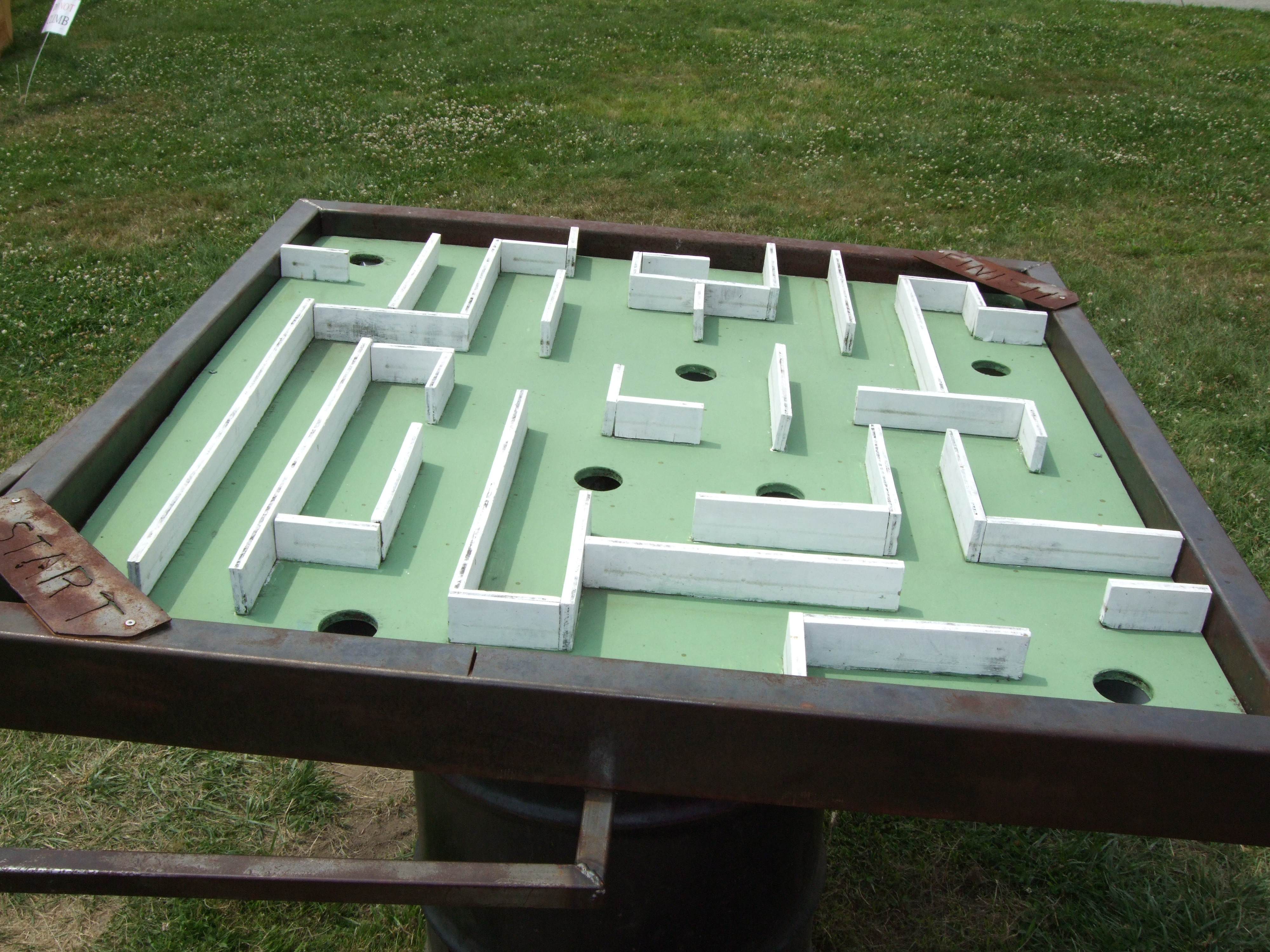 The old children's game Labyrinth, writ large. As in life, pitfalls lie on the one true path to your dreams. These "Fail Holes" each represent a different flavor of failure- like: Fail: Someone younger and cuter got the promotion; or Fail: You are just not good enough. Move to Portland. The ball falling into a fail hole rolls through a system of pipes back to the origin, each failure counts as a stroke. Successfully navigating the maze causes the ball to roll into the Pipe of Winning and the player wins. From the minigolf course at the 2009 FIGMENT participatory arts event, Governors Island, New York.